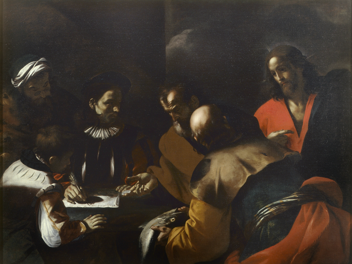 The tribute money: "In the dark brown tones of the painting, we can barely make out the six figures half illuminated by a light from some indiscernible source. The tax collector pauses in his writing as Peter hands him the coin. Only this pause indicates the miracle that has just occurred: Peter found the coin in a fish he had caught at the command of Christ (St Matthew 17:24). The turban of a man, a hand holding a pen, another holding a coin, a face in profile with a deeply lined forehead, turned towards another face of which we can recognize only the temple and the nose, a bald head, a little red fabric and the heavy folds of a rough brown cloth are the scattered but not unconnected fragments from which our gaze wanders to and fro, reconstructing the narrative."